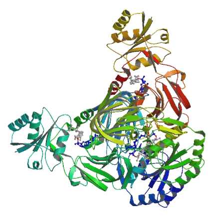 Image from the RCSB PDB ( Crystal structure of a NAD kinase from Archaeoglobus fulgidus in complex with its substrate and product: Insights into the catalysis of NAD kinase. Authors: Liu, J., Lou, Y., Yokota, H., Adams, P.D., Kim, R., Kim, S.-H., Berkeley Structural Genomics Center PDB 1SUW The contents of the PDB are in the public domain, see [1].